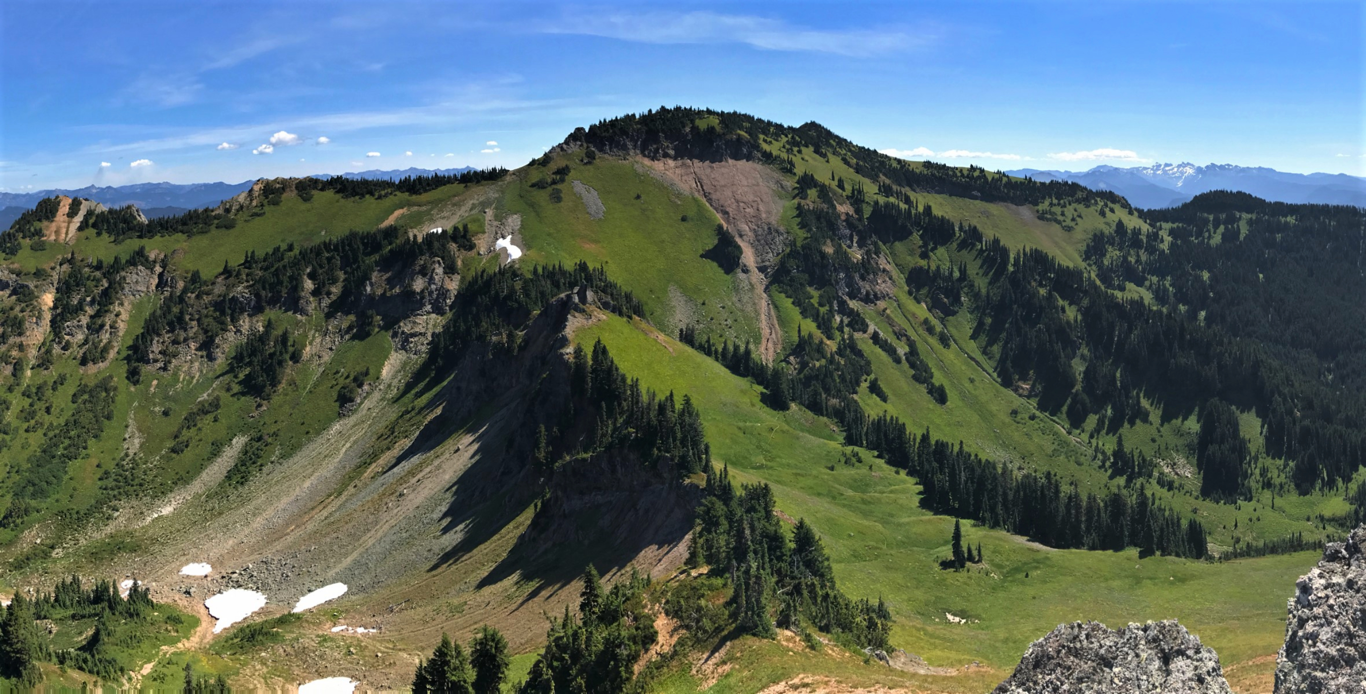 Tatoosh Peak